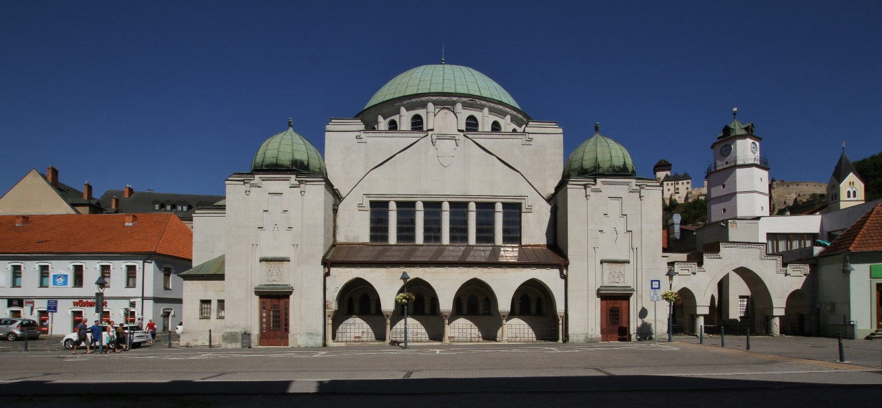 Former synagogue in Štúrovo námestie, Trenčín, Slovakia, seen from west-southwest, with the Dolná brána in the background on the right